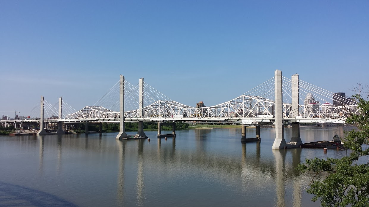 Other information No Picture I took of the Abraham Lincoln Bridge (I-65 nb) in Louisville KY on June 12, 2016